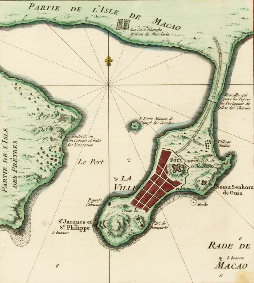 Inset of Bellin's map of Macao and Qianshan